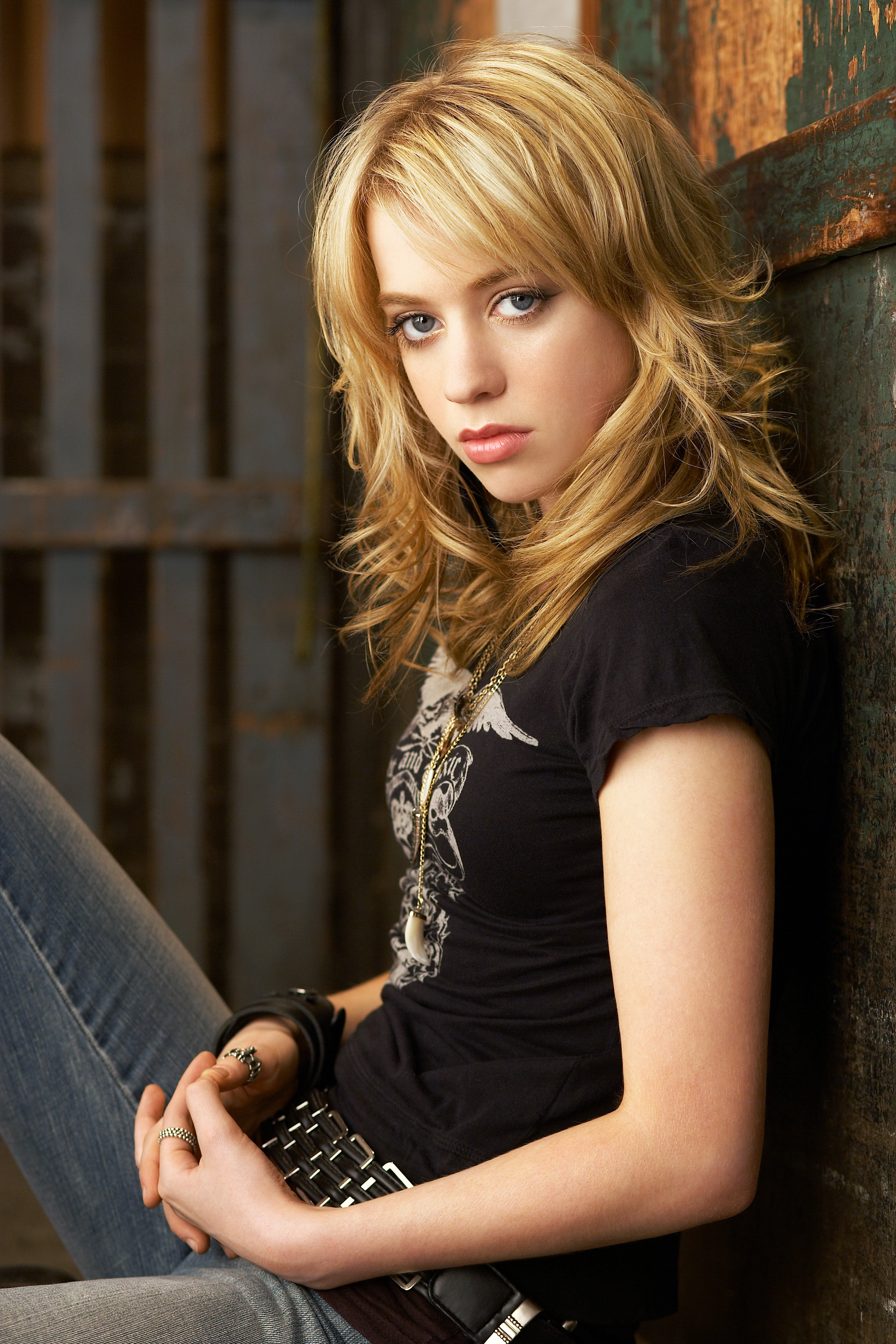 Alexz Johnson as Jude Harrison in Instant Star (seated, in freight elevator)